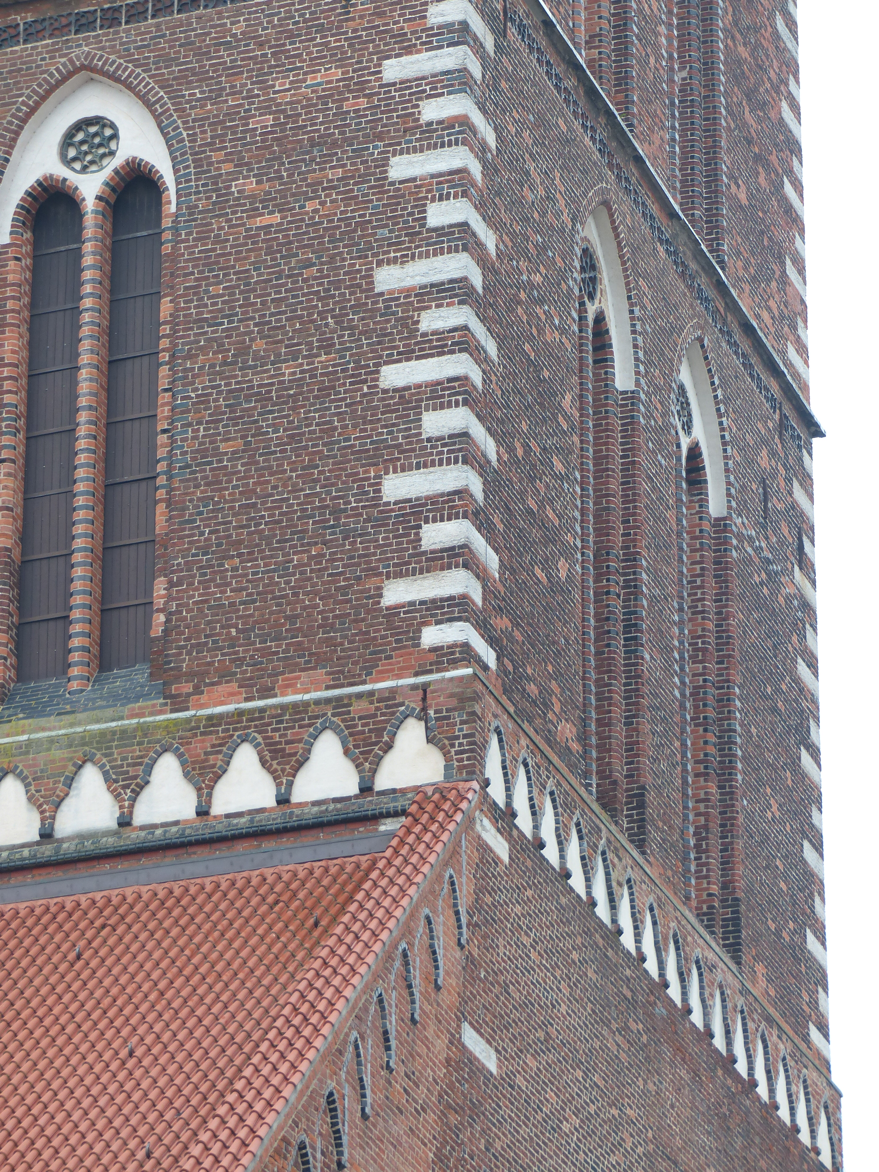 St Mary church tower in Wismar, lowest upper storey of the tower from Northwest, with cubes of chalk ashley and white paved blind arcades